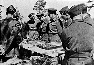 Photo from 1943 exhumation of mass grave of polish officers killed by NKVD in Katyń Forest in 1940. Germans showing their findings to an international commission made up from POW officers from Great Britain, Canada and US.